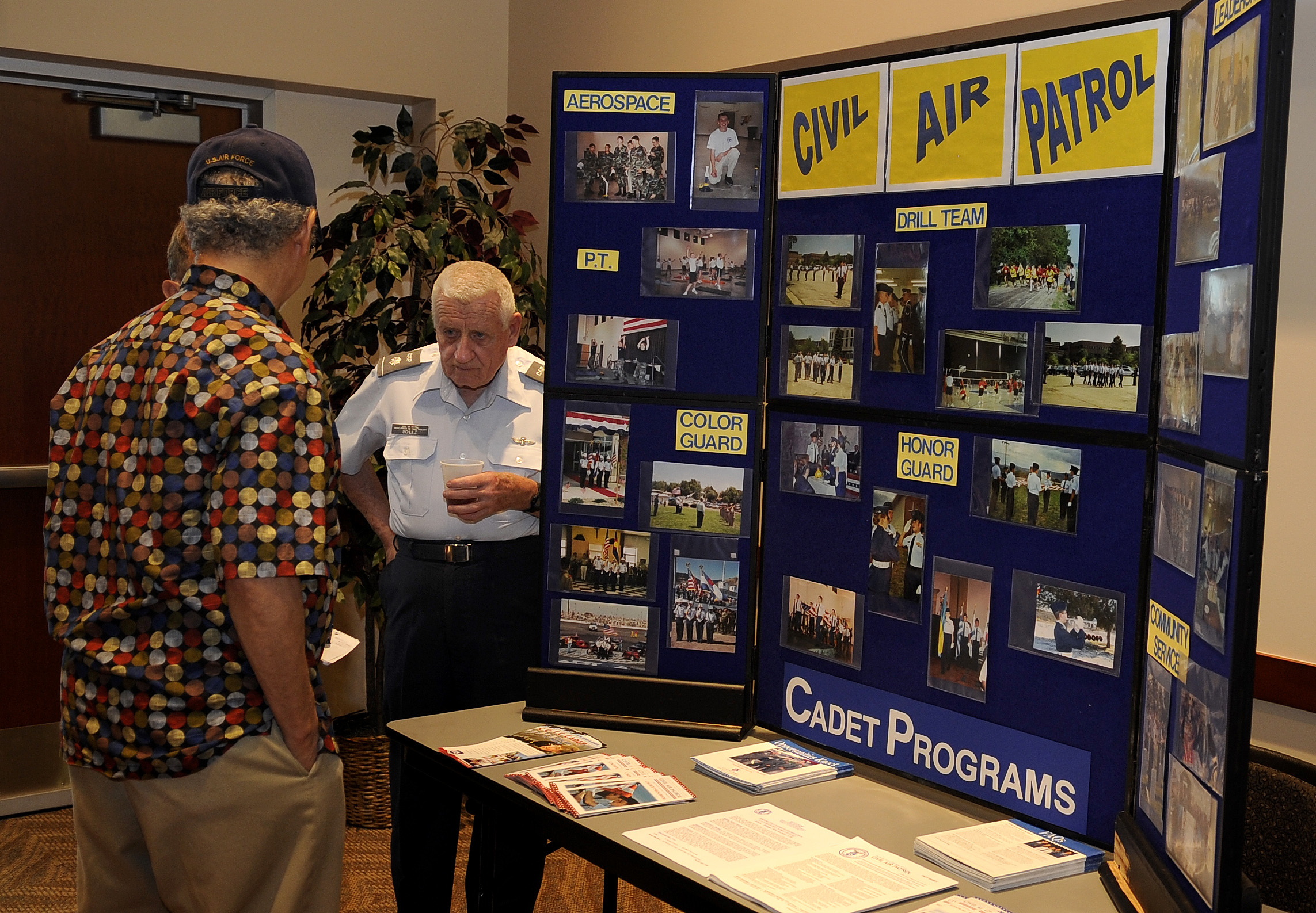 Colorado's retirees and veterans were invited to Buckley AFB's annual Retiree Appreciation day at the leadership development center here, June 18. More than 30 organizations gathered in support of the retiree's including the Civil Air Patrol. (Photo By: Senior Airman Steve Czyz)(Released)